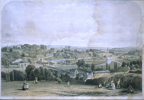 William Spreat's print showing the original Exeter St David's station, built by the Hoopers in Pennyroyal Fields in 1844.